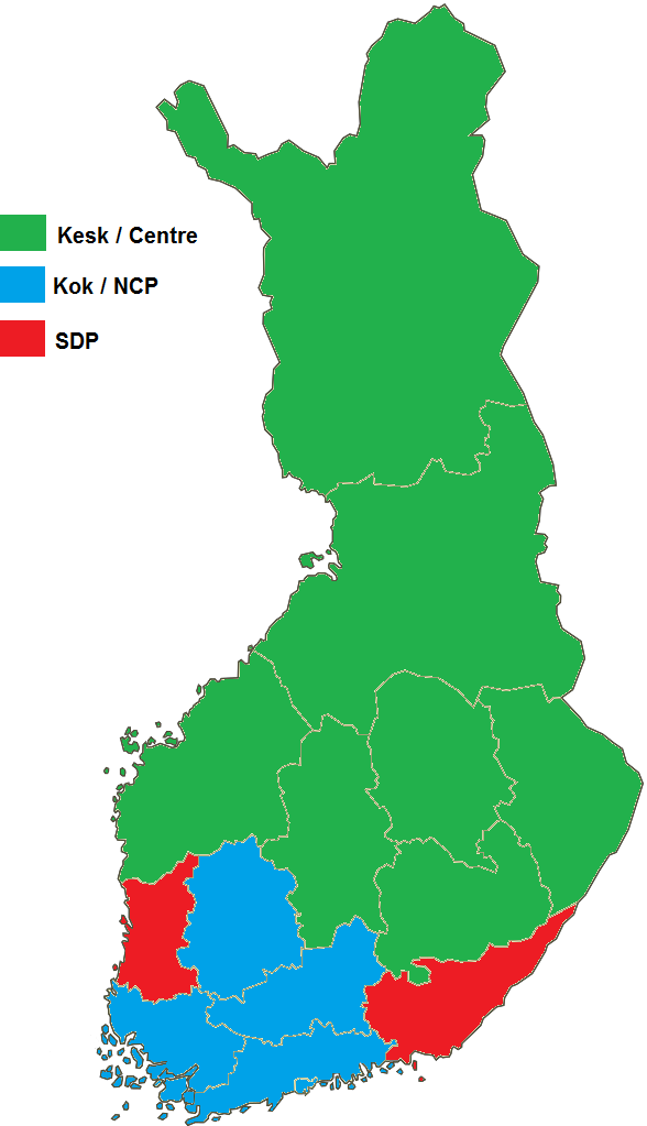 Finnish municipal elections, 2012 result by constituency